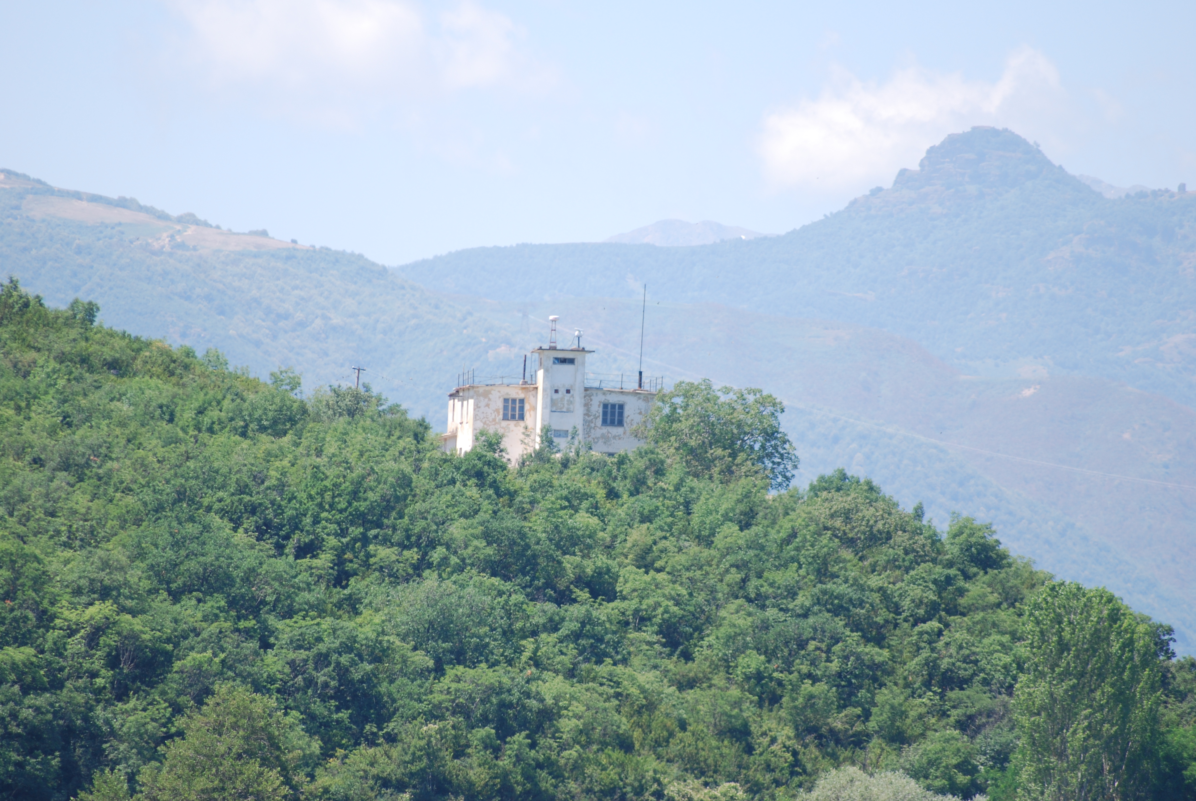 Watch tower of Macedonian-Albanian border near the monastery dedicated to St. Naum